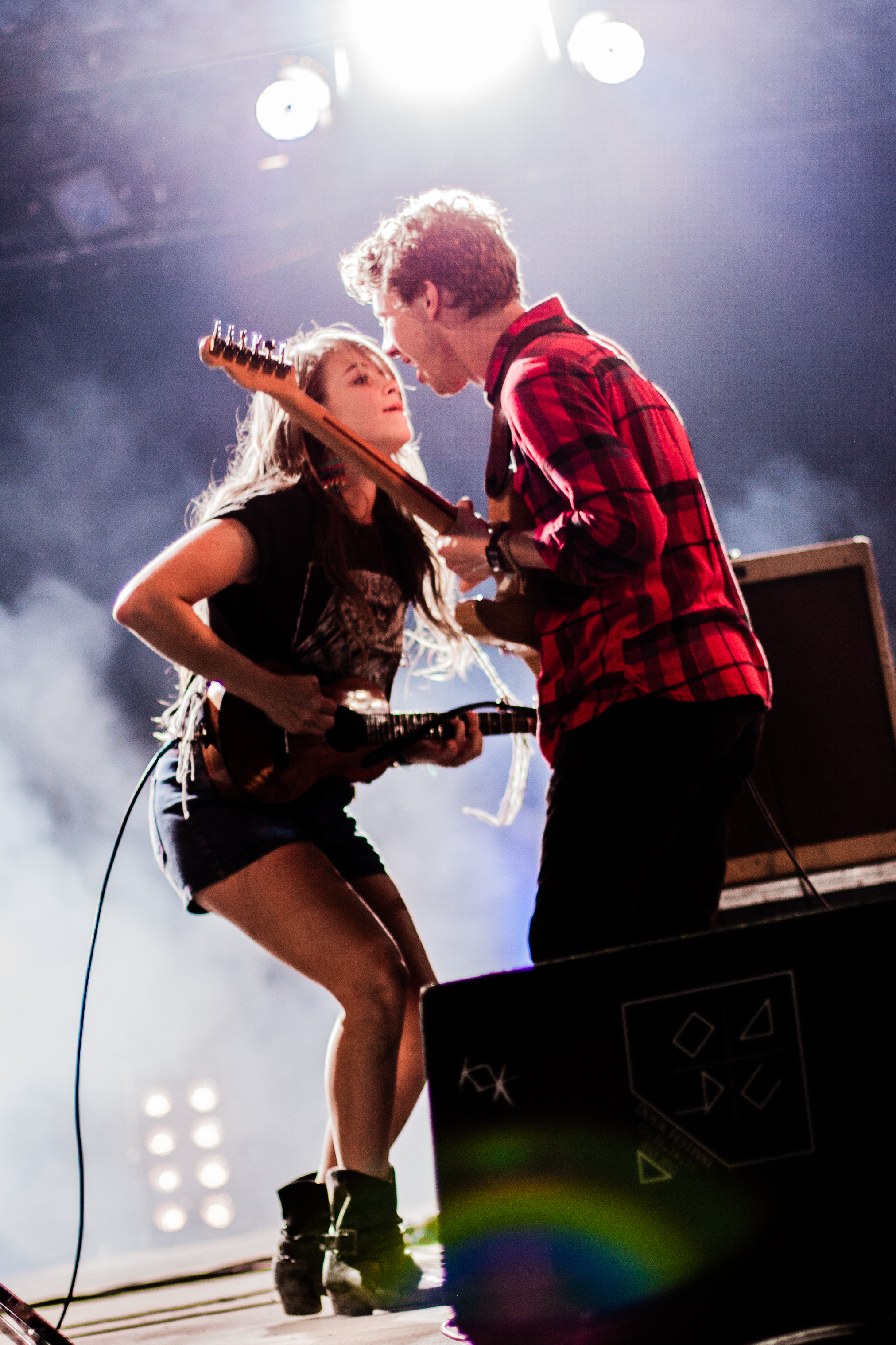 Follow me on facebook Twitter : @didyPhotography All the photographies I've made are now under CC0 (Creative Commons Zero) CC0 - learn more To the extent possible under law, Eddy BERTHIER has waived all copyright and related or neighboring rights to Givers @ Dour 2012. This work is published from: France.